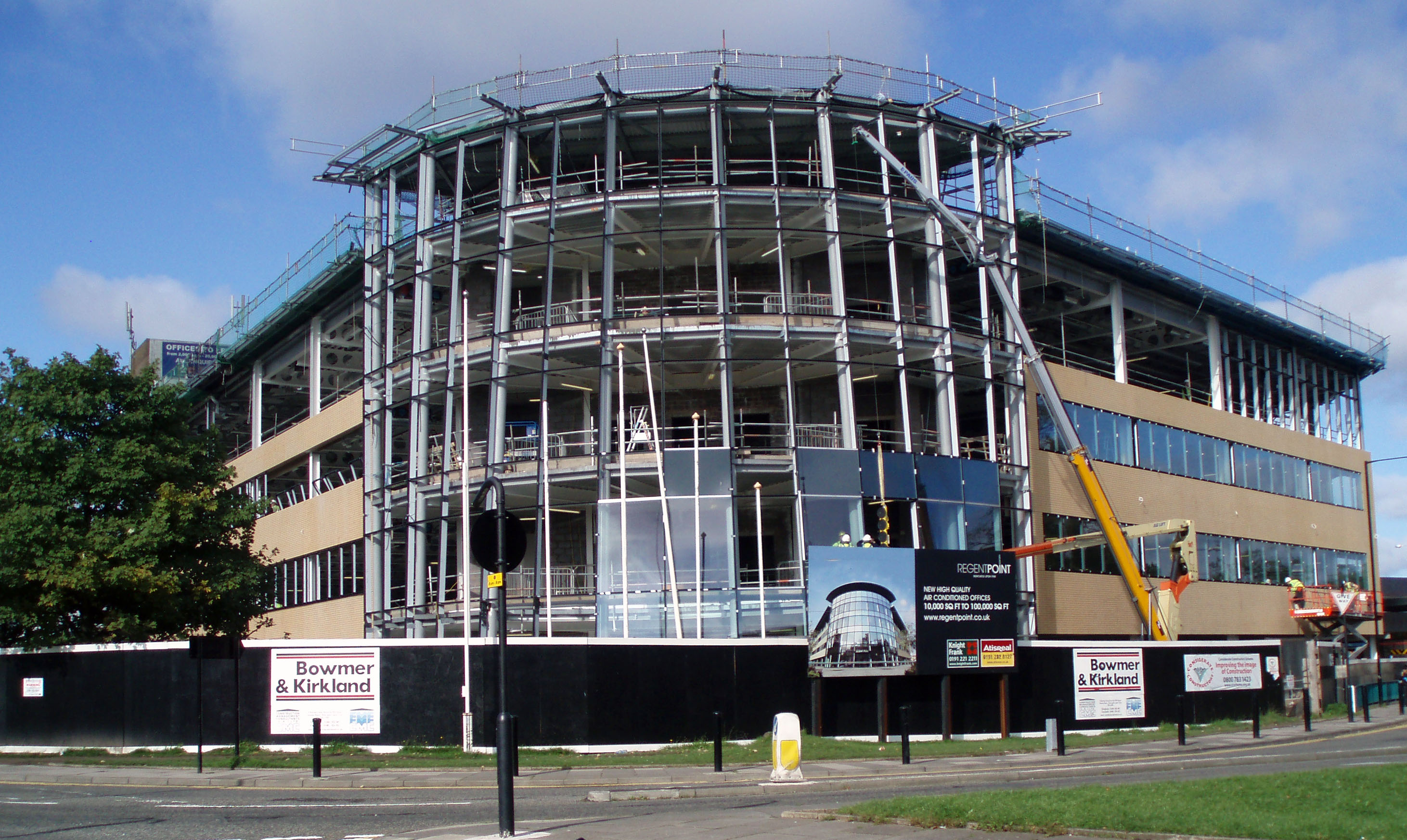 The Regent Point building during construction, at Regent Centre, Gosforth. Taken on 1 October 2008.